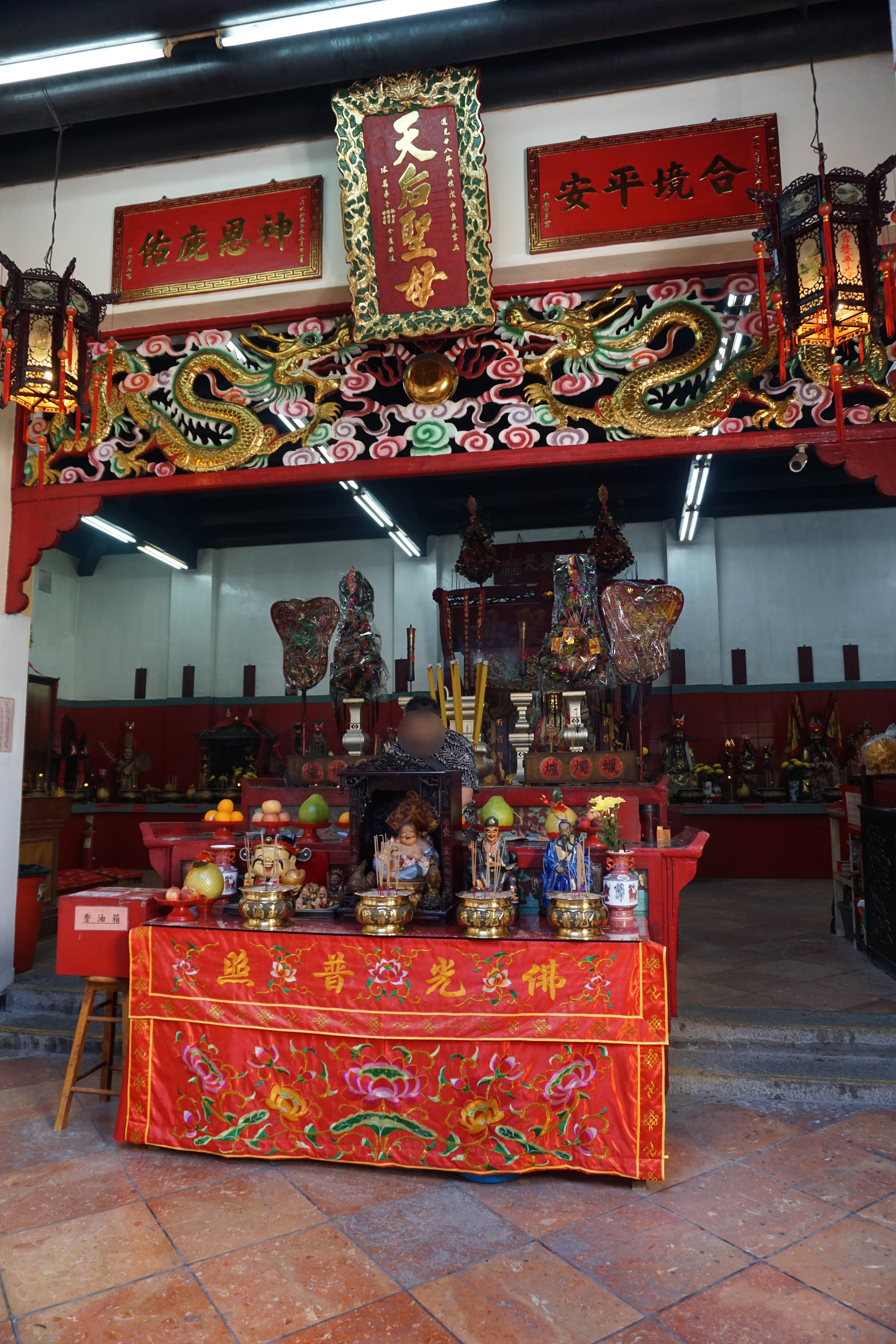 Tin Hau Temple in Stanley, Hong Kong.